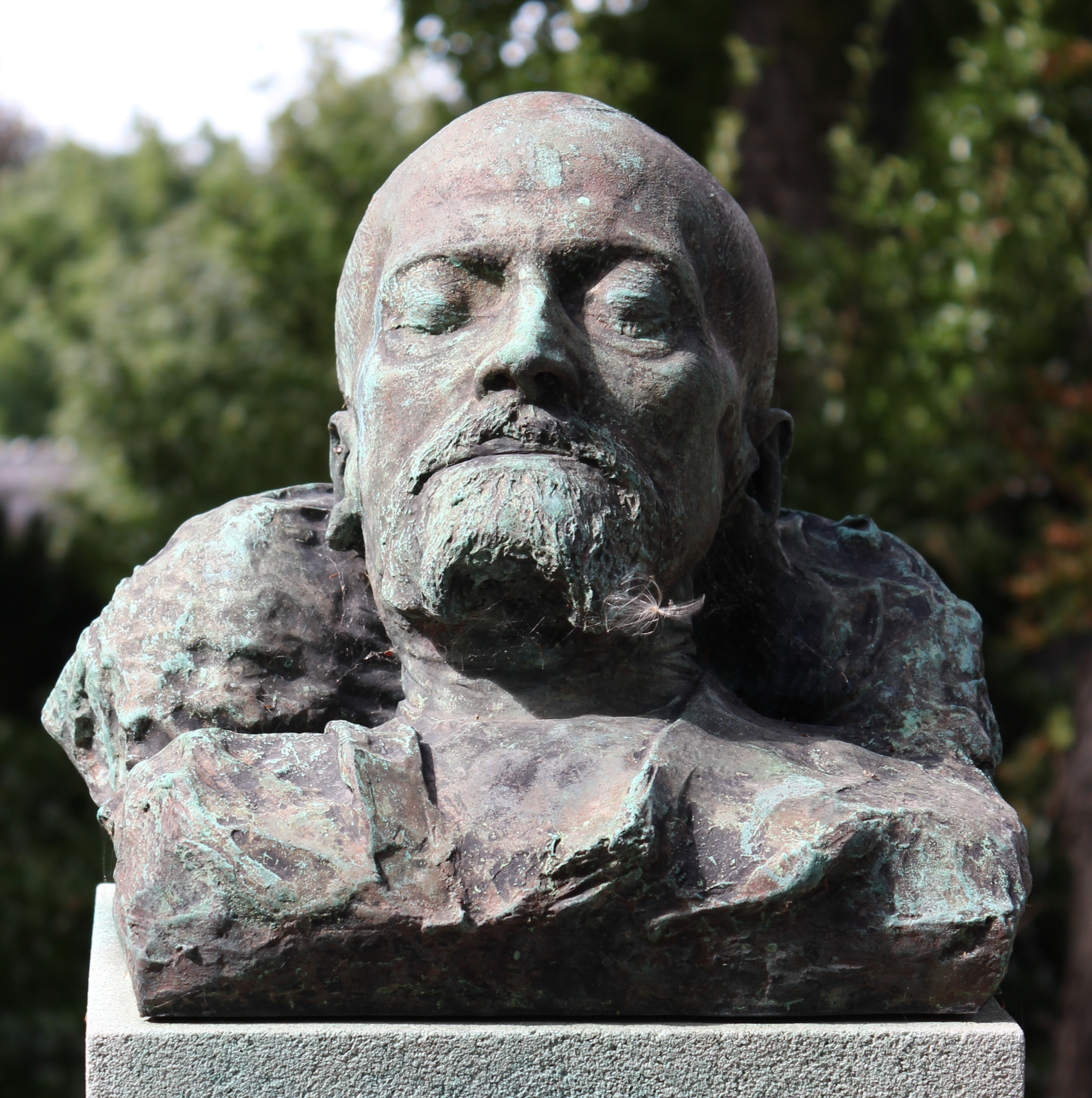 Bust